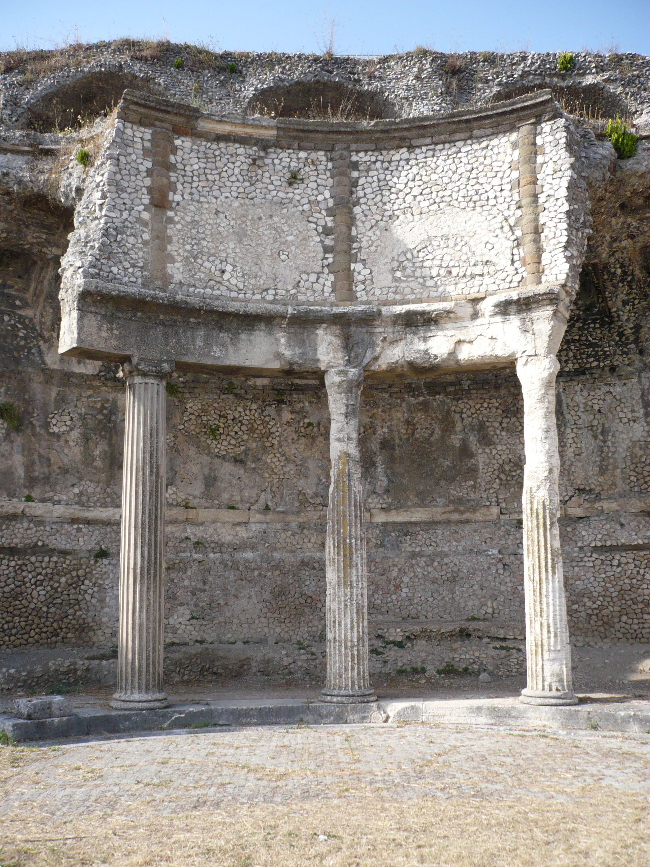 Ruins of the Sanctuary of Fortuna Primigenia, Palestrina